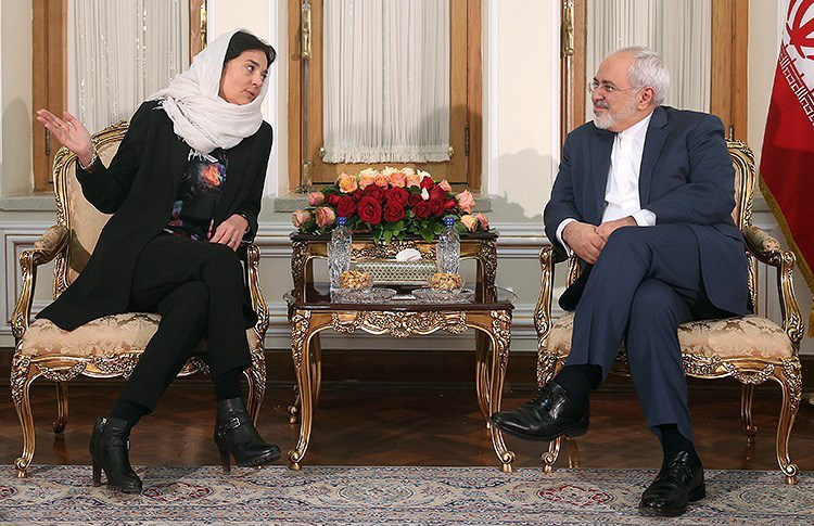 Christine Defraigne, President of Belgian Senate meeting with Iranian Foreign Minister Mohammad Javad Zarif in Tehran. She did not wear the scarf due to any religious belief but because Iranian law forces women to cover themselves. See the article about sex segregation in Iran and her article on Wikipedia for more information.